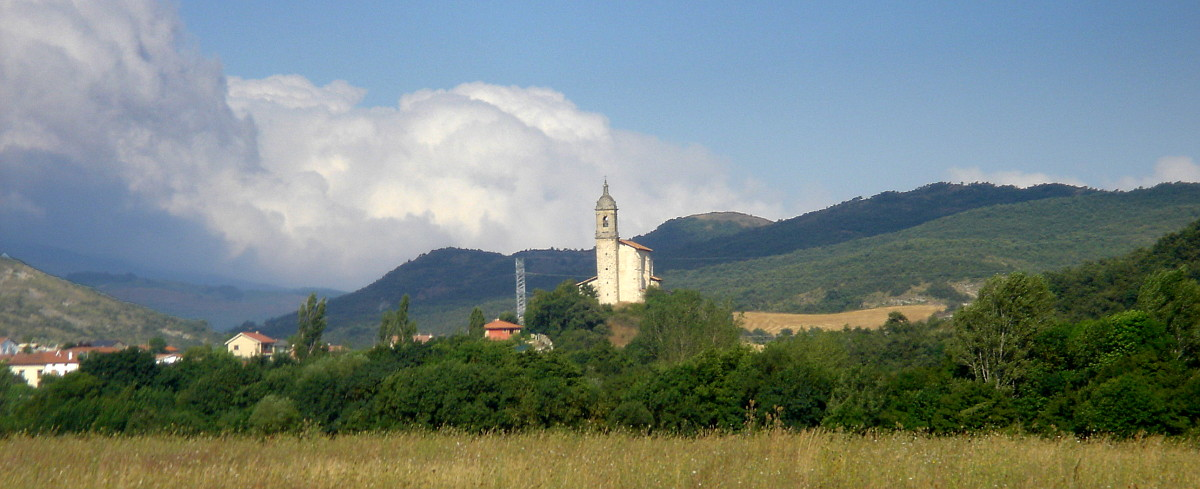 Church of Arroiabe (Arratzu-Ubarrundia, Basque Country, Spain)